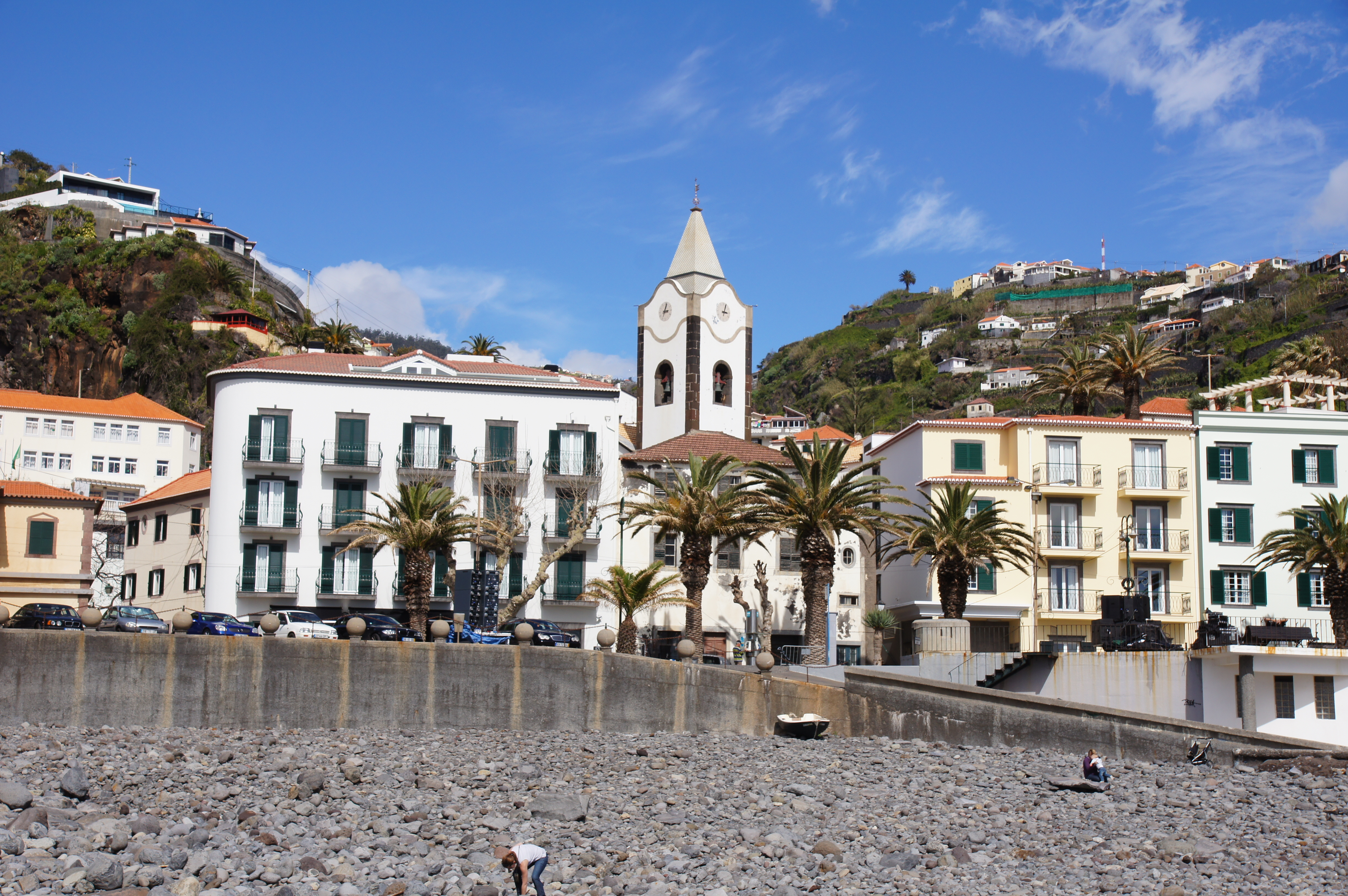 Ponta do Sol from the beach